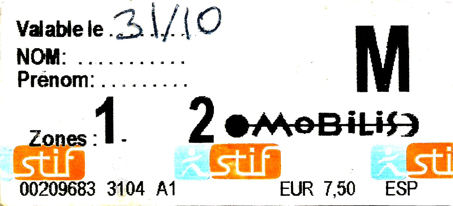 Mobilis Paris, 1 Zone, 2017